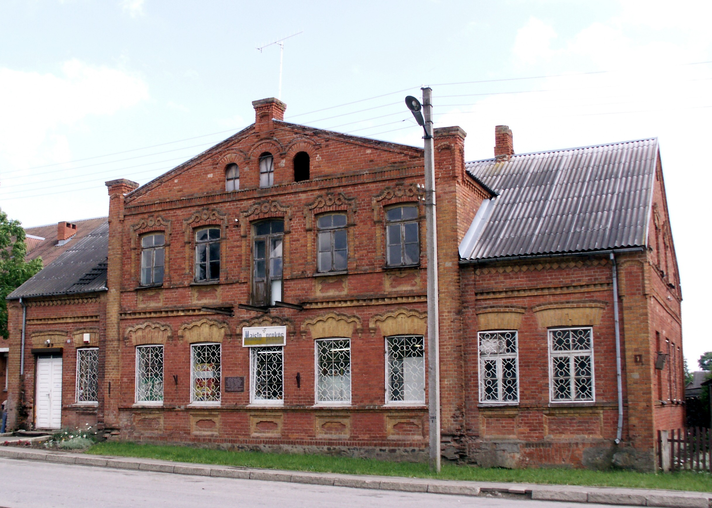 Lygumai, gimnazija, Pakruojis district